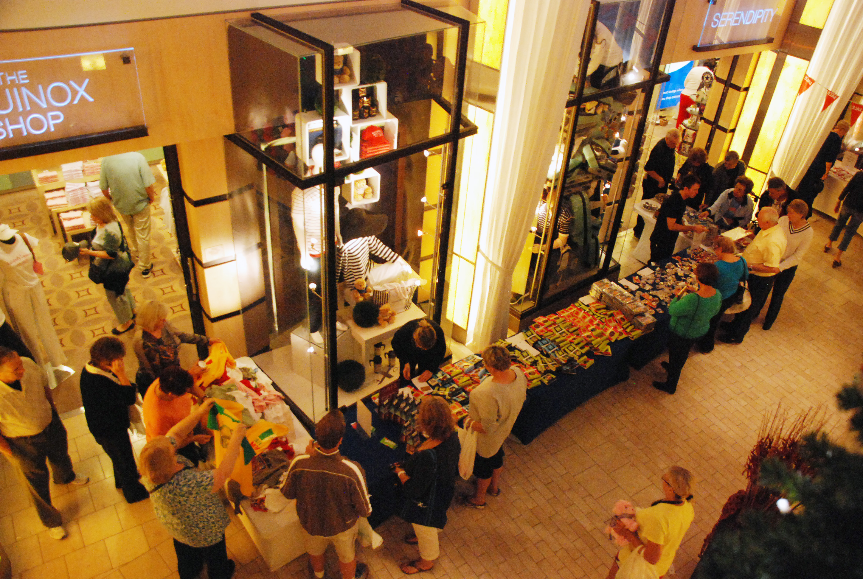 Looking from the fifth deck to the fourth deck at some of the clearance sales from the shops. Scenes aboard the Celebrity Equinox during December, 2011.